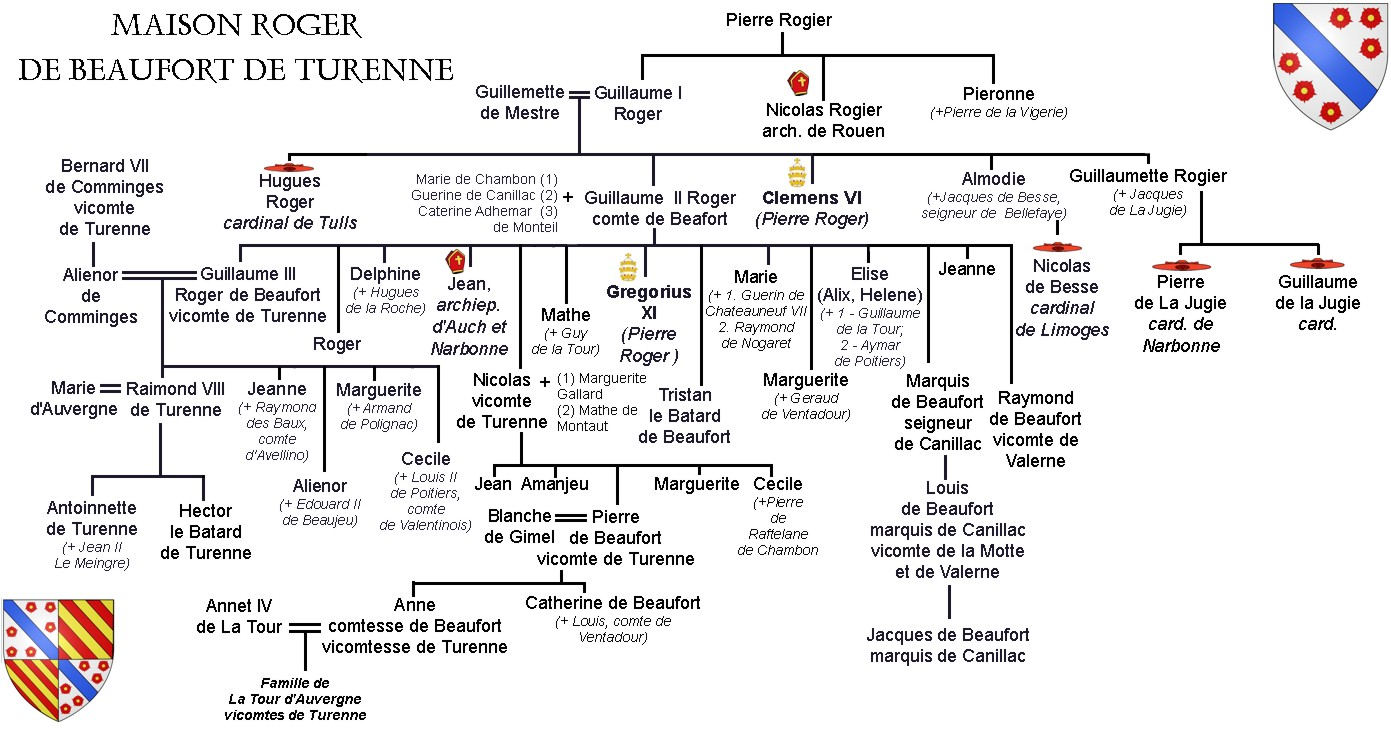 Family tree of Roger de Beaufort de Turenne